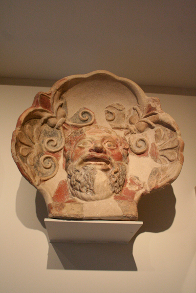 Terracotta antefix (roof tile) with head of a satyr, 4th century B.C. Etruscan, Cerveteri. Terracotta; H. 49.71 cm. The Metropolitan Museum of Art, New York, Purchase by subscription, 1896 #96.18.159